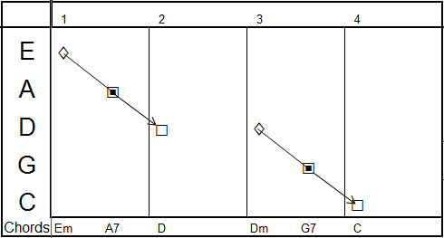 A SeeChord chart of "Tune up" by Miles Davis